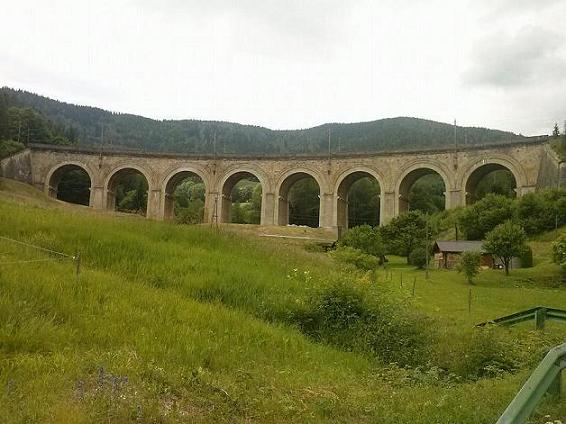 Fleischmann-Viadukt, Breitenstein, Lower Austria, Austria